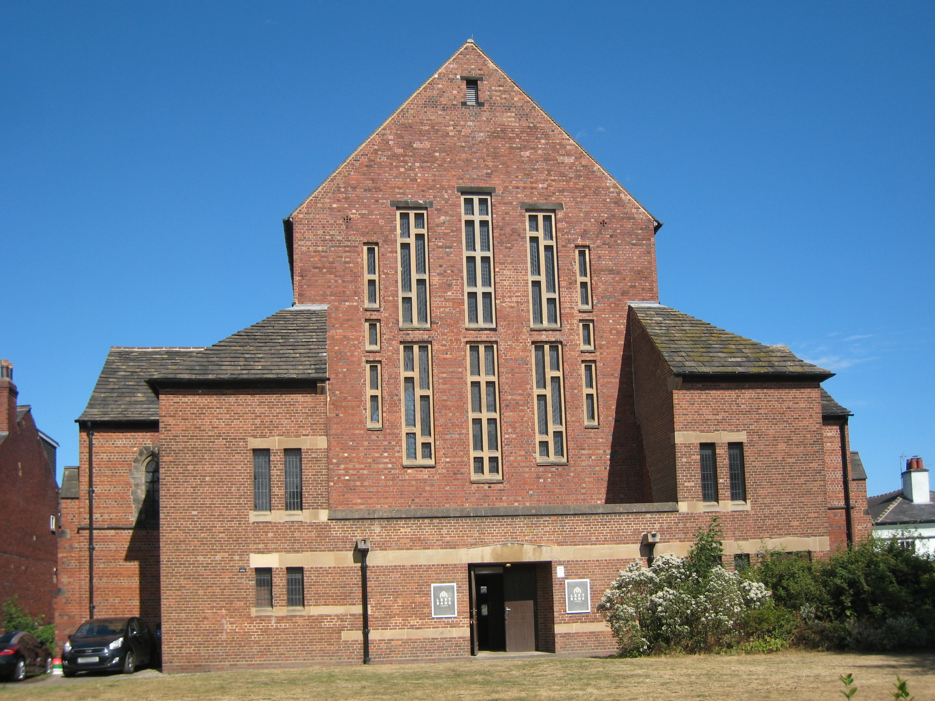 Left Bank, the Former St Margaret of Antioch church, Cardigan Road, Leeds LS6 1LJ, Now an arts centre.